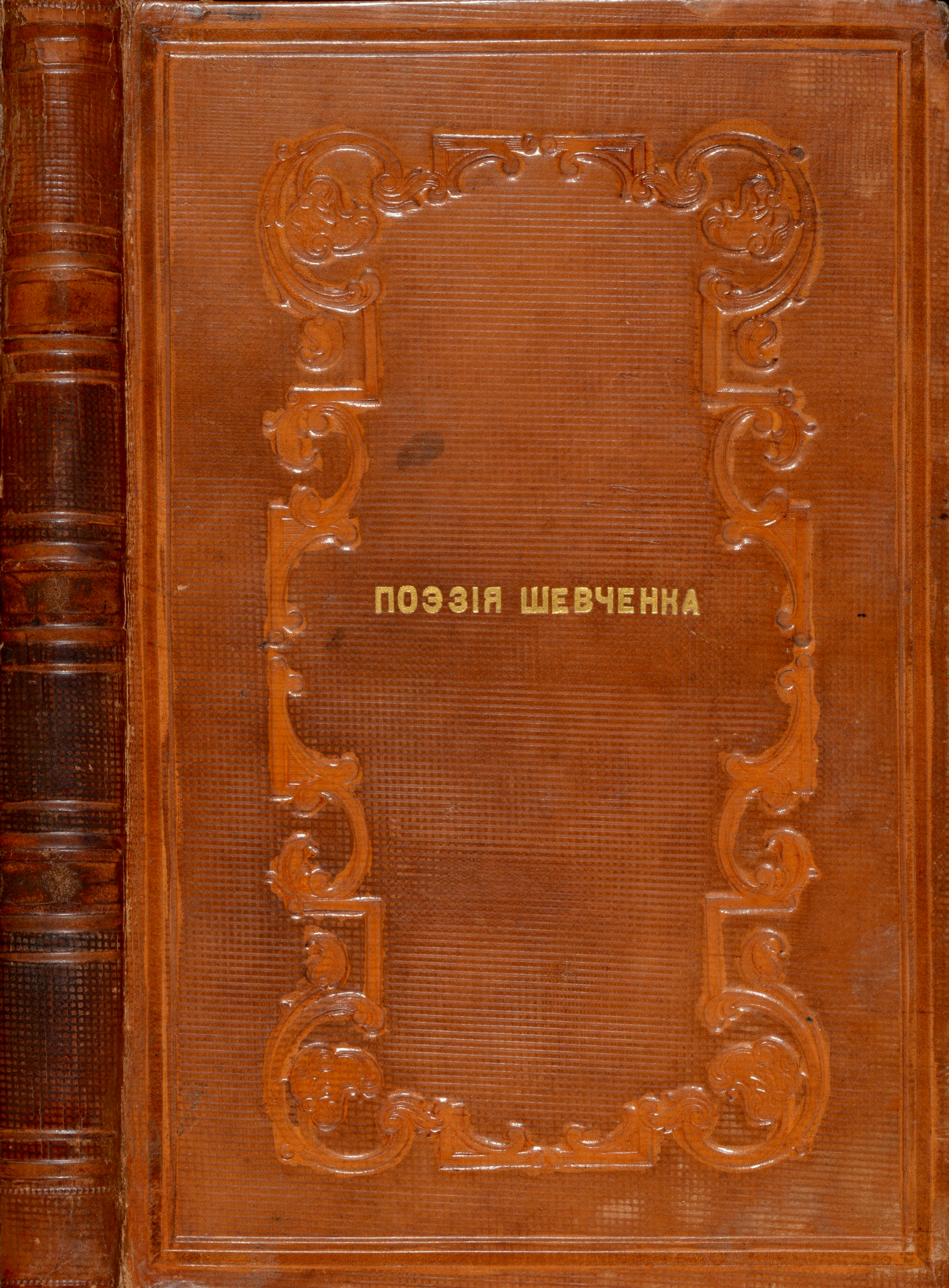 1861 Taras Shevchenko. Poetry 1847-1861. Book cover